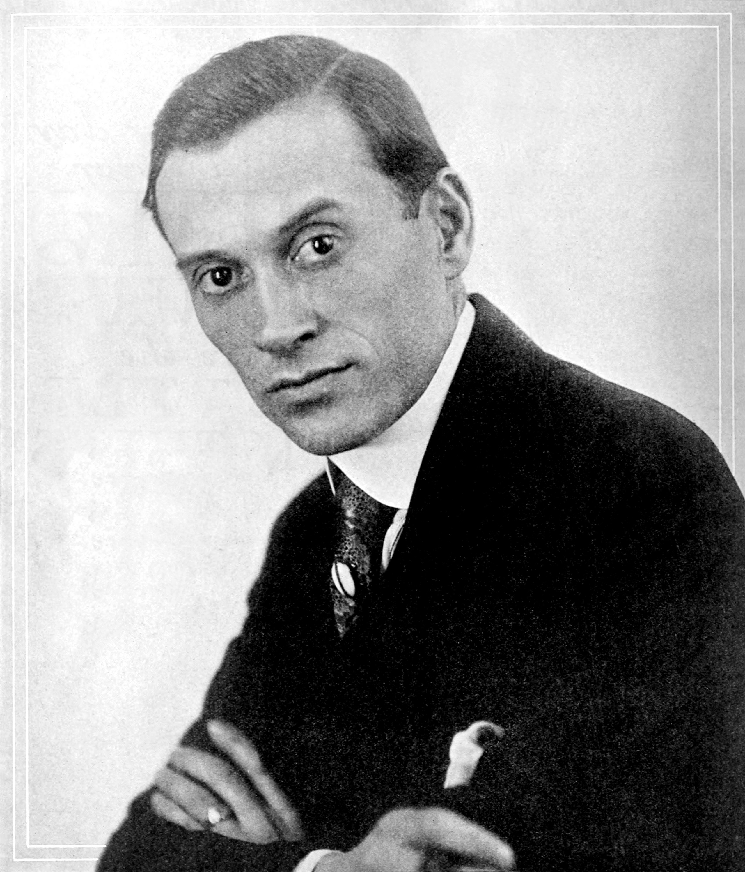 Photograph of actor-director William Nigh